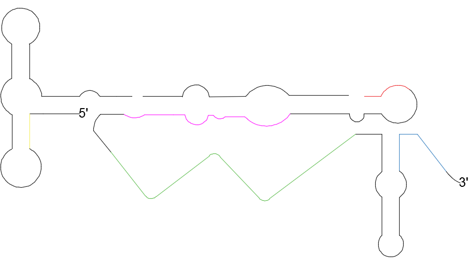 Structure of BC200 RNA